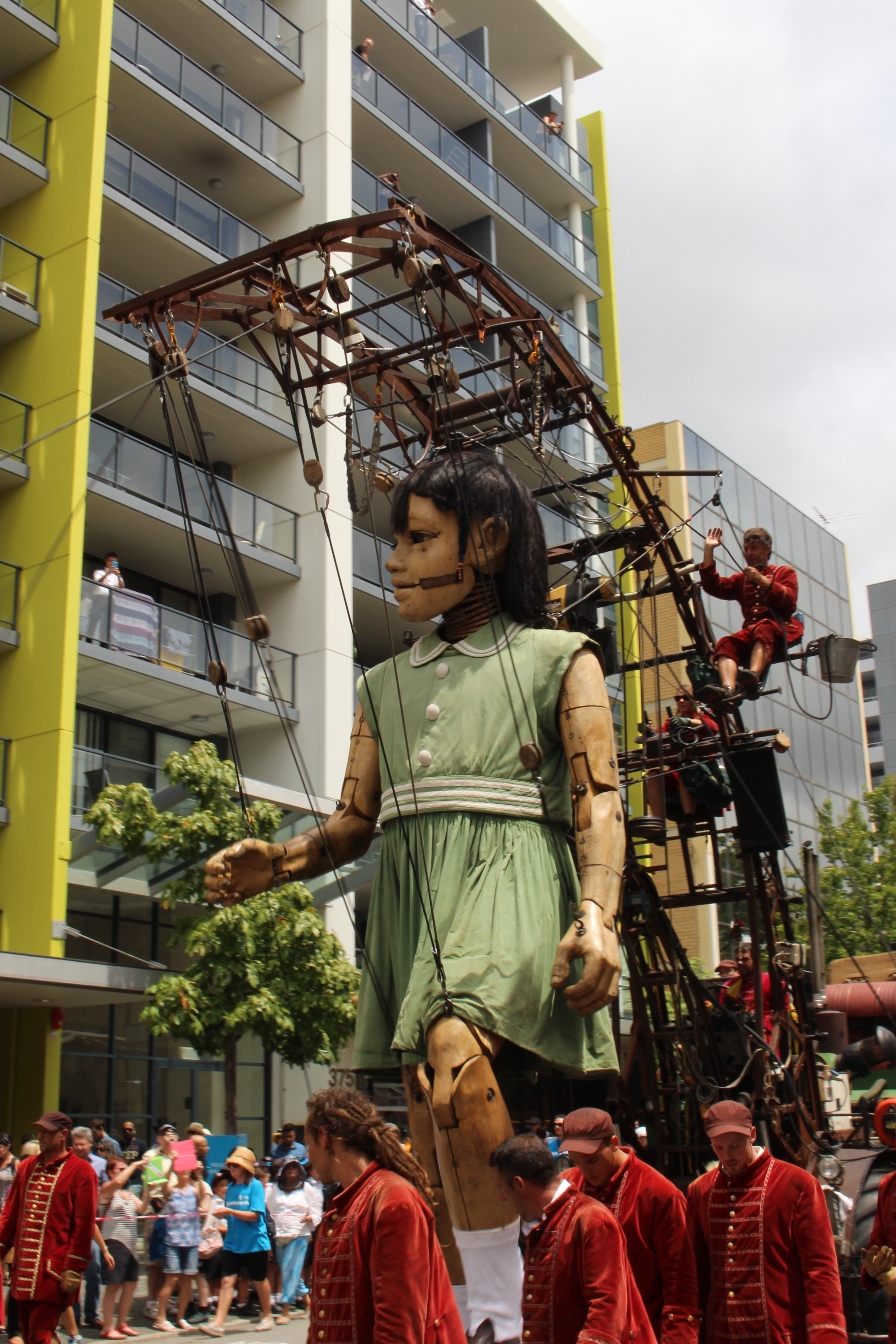 The Little Girl-Giant walking down Hay Street in Perth, Western Australia as part of Royal de Luxe's performance of The Incredible and Phenomenal Journey of the Giants to the Streets of Perth at the Perth International Arts Festival 2015.